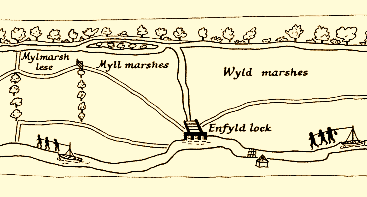 Detail from a large strip map preserved at Hatfield House, England showing river traffic on the Lea c.1594. In this extract boatmen are depicted towing barges near Enfield.